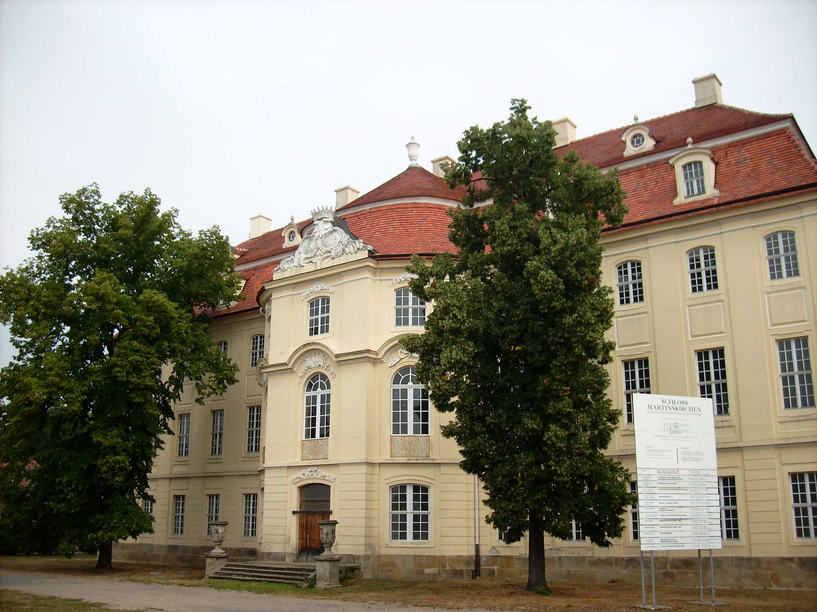 Martinskirchen Castle (Mühlberg/Elbe, Elbe-Elster district, Brandenburg)